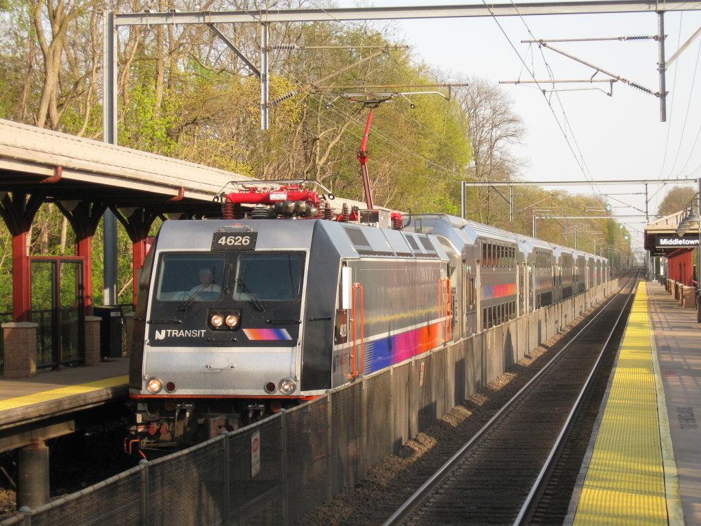 New Jersey Transit ALP-46 #4626 pulls Train 3270, an eight-car multilevel vehicle (MLV) train into Middletown Station in Middletown, NJ, on the North Jersey Coast Line.